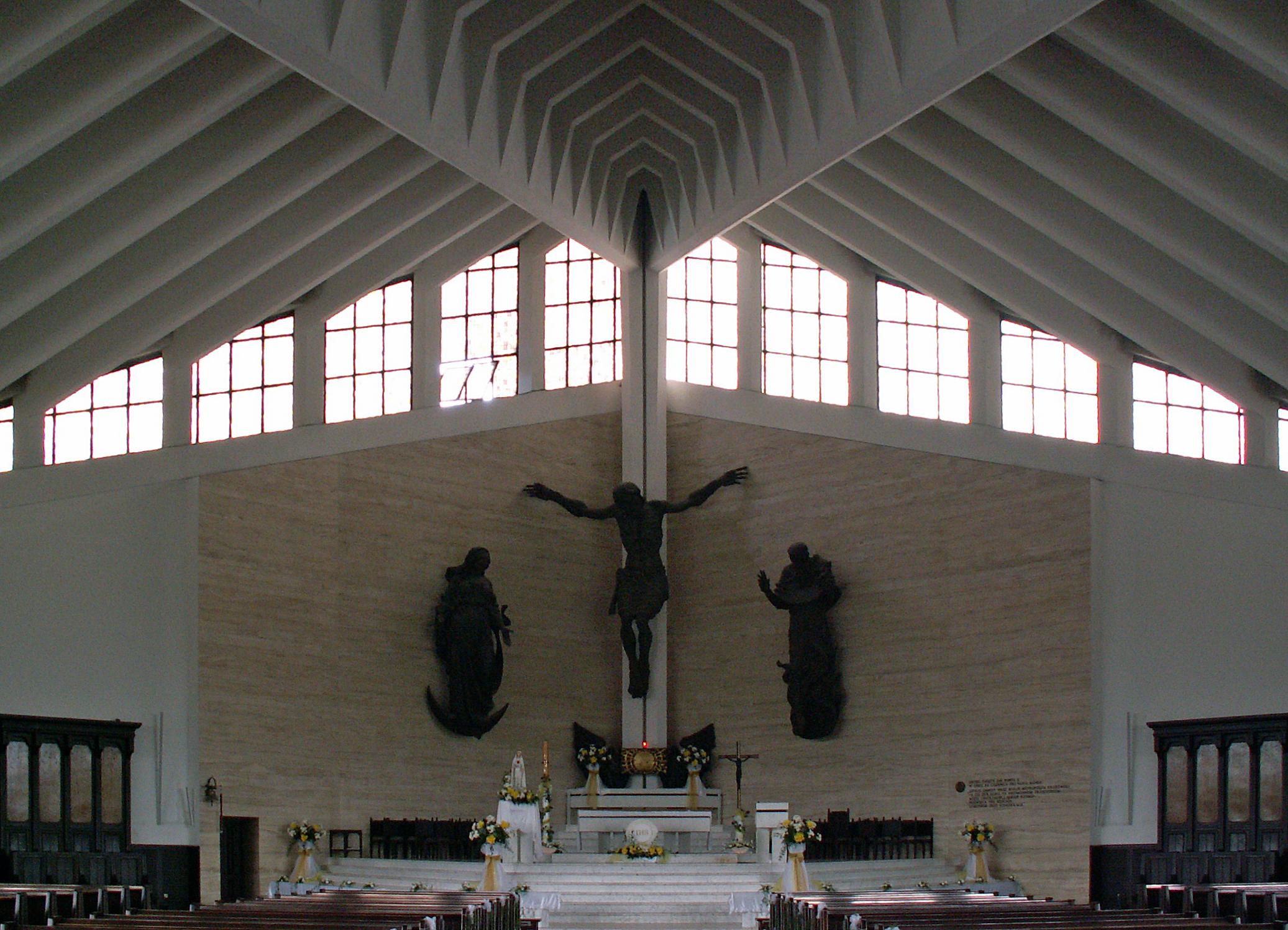 St Maximilian Maria Kolbe Church (interior), 86 osiedle Tysiaclecia, Mistrzejowice, Krakow, Poland